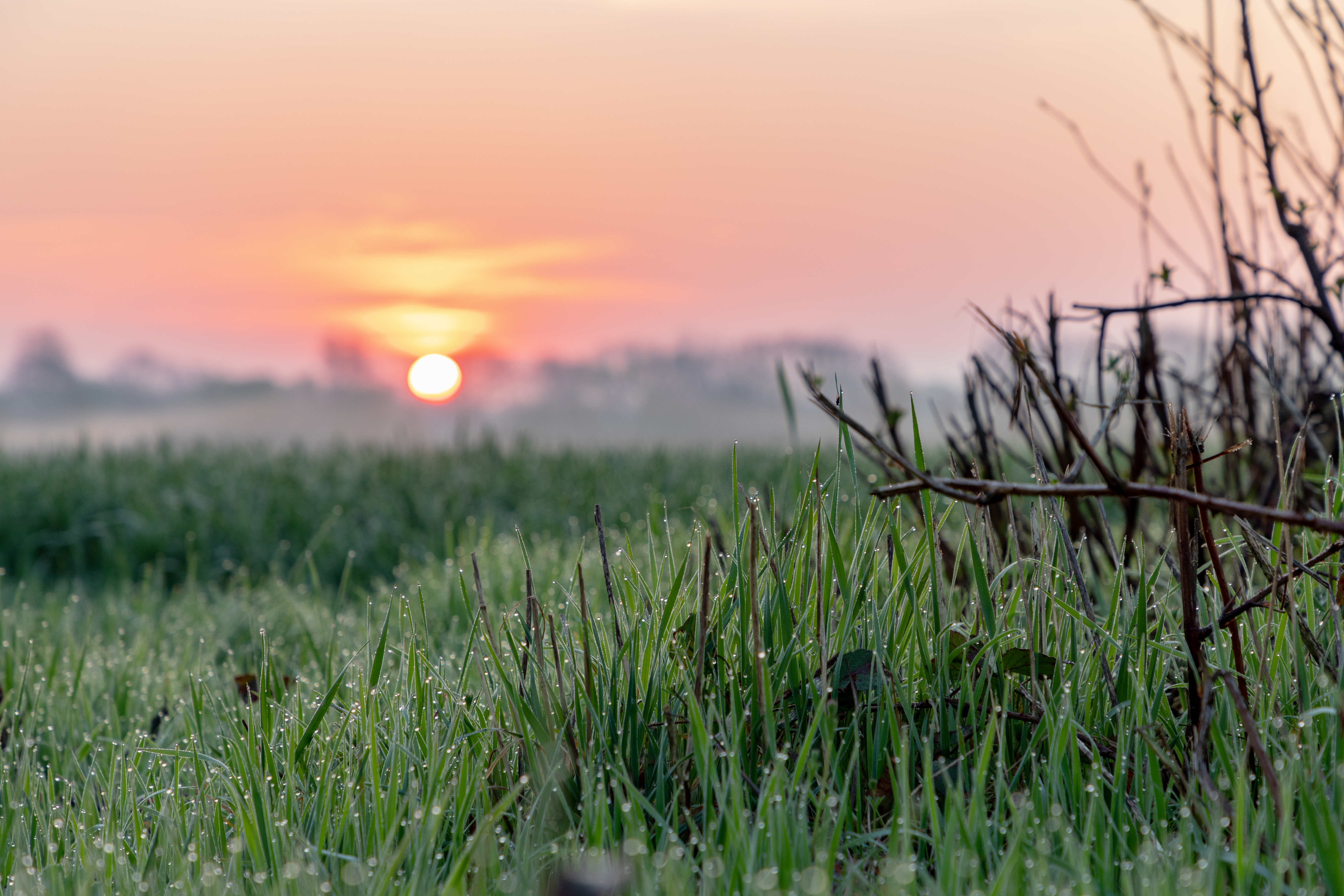 Sunrise at the Dernekamp hamlet, Kirchspiel, Dülmen, North Rhine-Westphalia, Germany